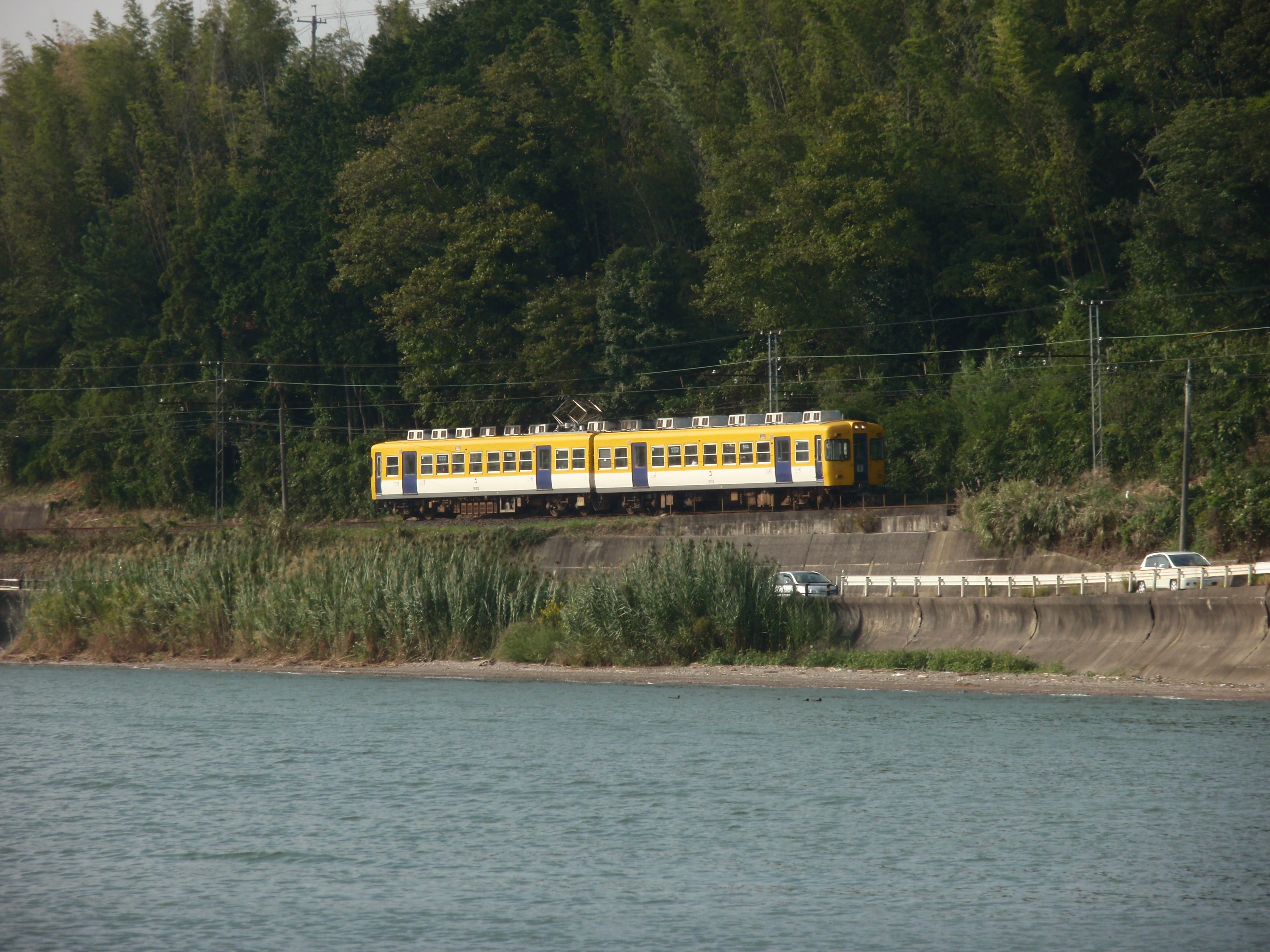 EMU Type 2100 No.2103 and 2113 by Ichibata Electric Railway(BATADEN).